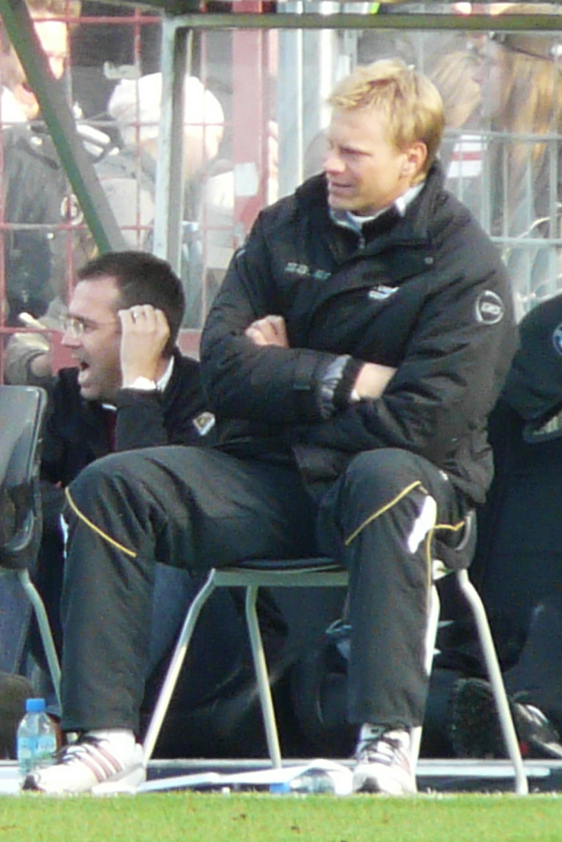 Markus Feldhoff as Co-Coach from Energie Cottbus